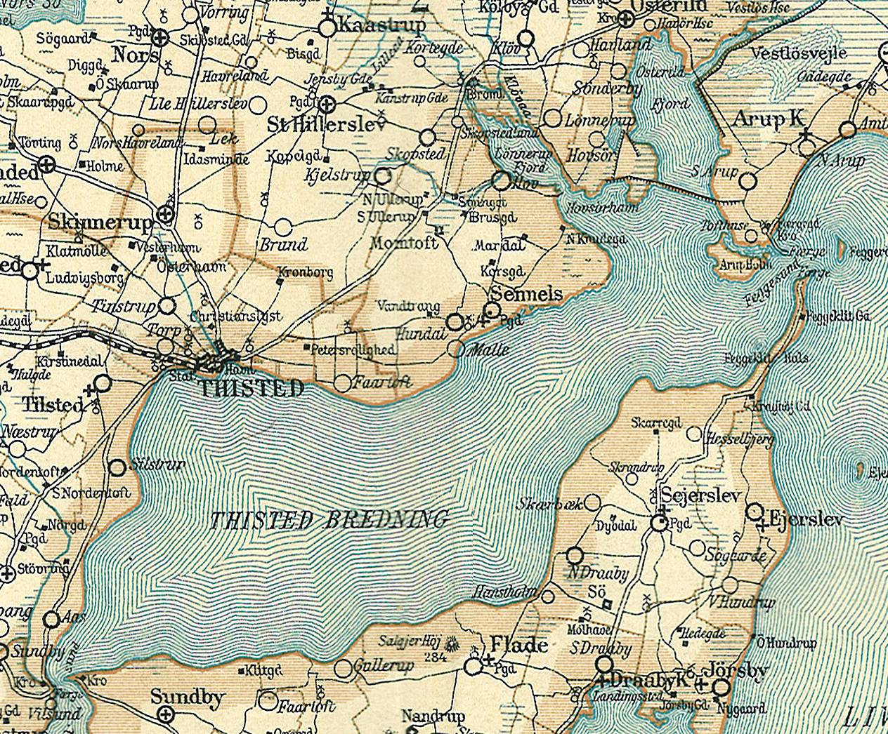 Map of Thisted County in Denmark